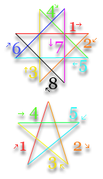 Auseklis and pentagram, crosses of Lietuvēns in Latvian mythology numbers and arrows show how to draw them without lifting hand. I created this image myself